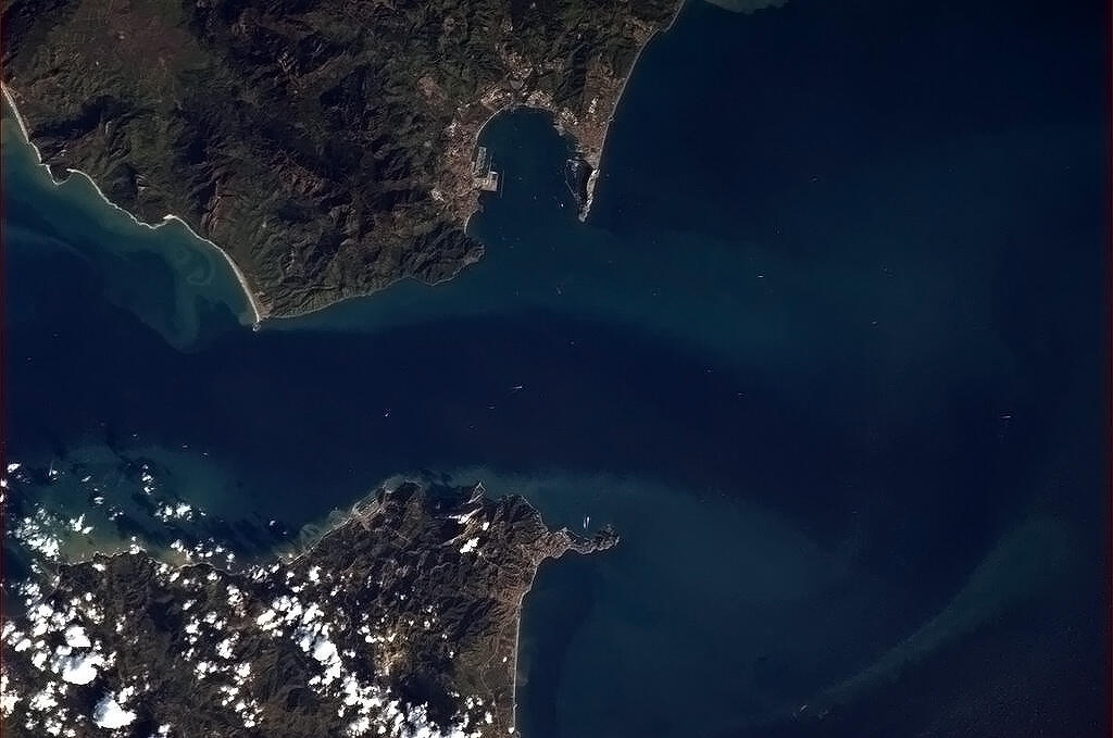 "The Mediterranean's mouth - Gibraltar, Algeciras, Ceuta." Caption by astronaut Chris Hadfield on board the International Space Station.